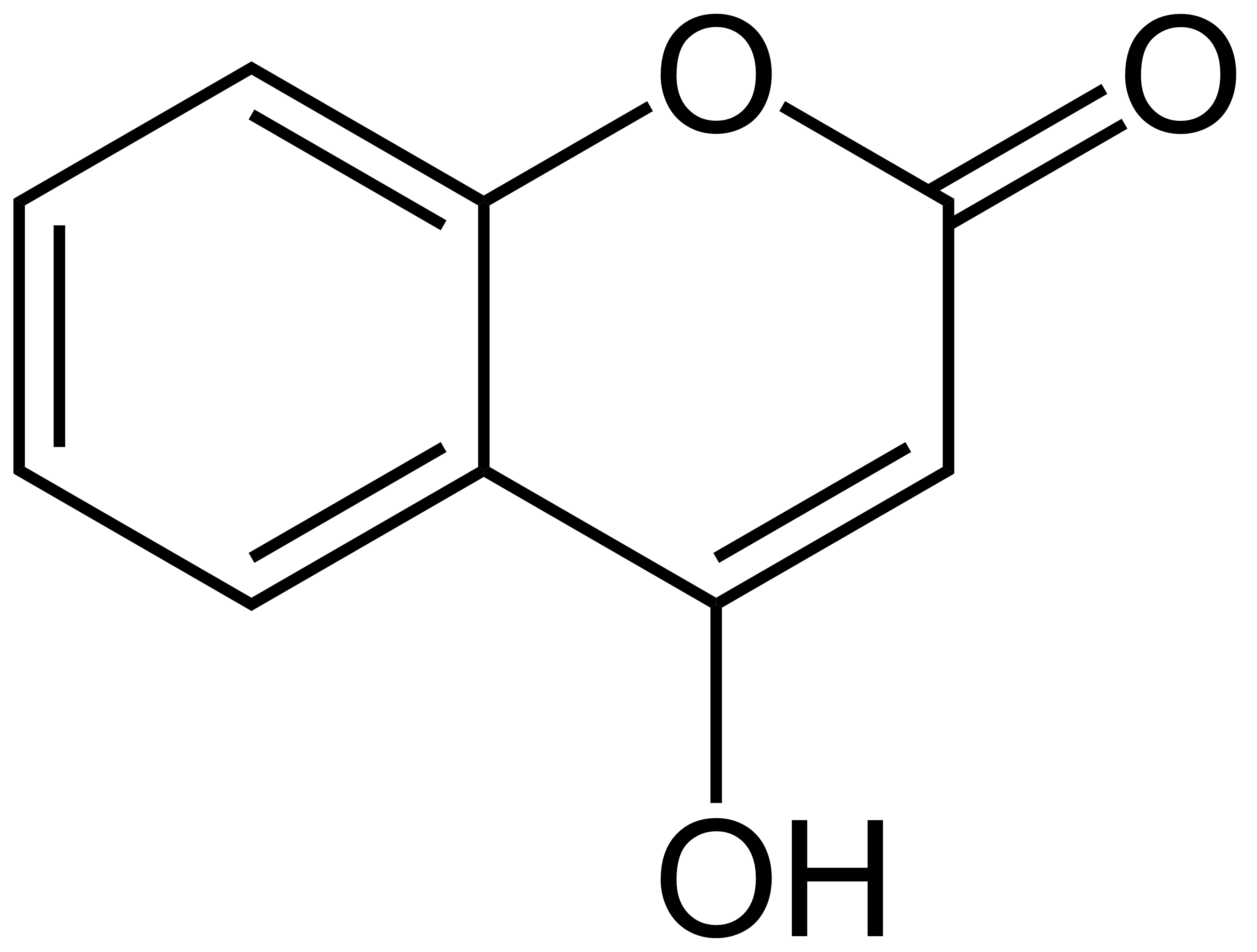 chemical structure of 4-Hydroxycoumarin